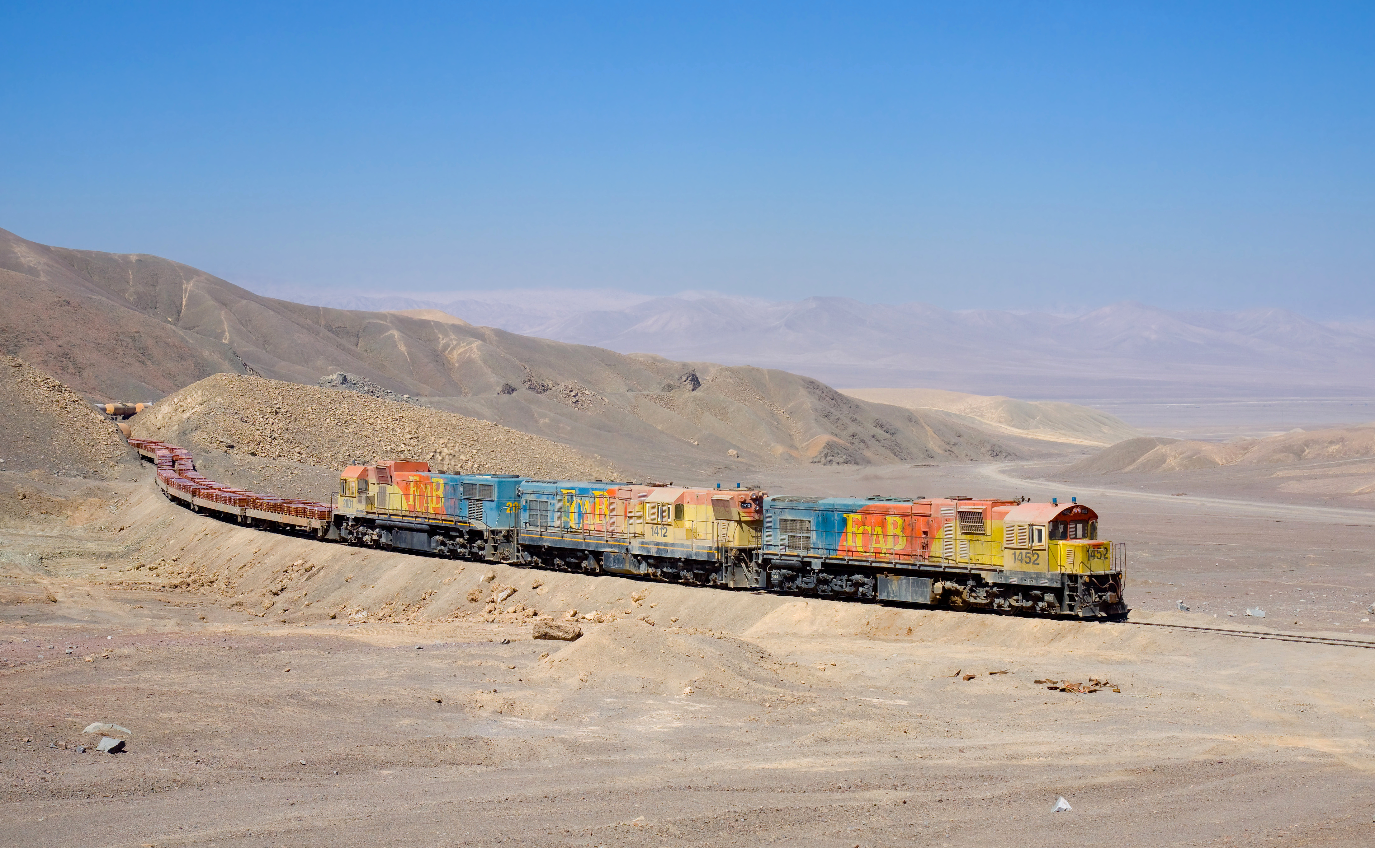 FCAB engines Clyde GL26C no. 1452, EMD GR12U no. 1412 and Clyde G26C-2 no. 2001 climb the eastern approach of the Cumbre pass on their way from a copper mine to Antofagasta and Mejillones. The train consists of flatcars loaded with copper plates and empty sulfuric acid tank cars. Image taken between Prat and Cumbre, Chile.